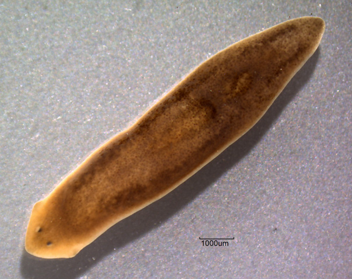 Fixed specimen of Dugesi sagitta.